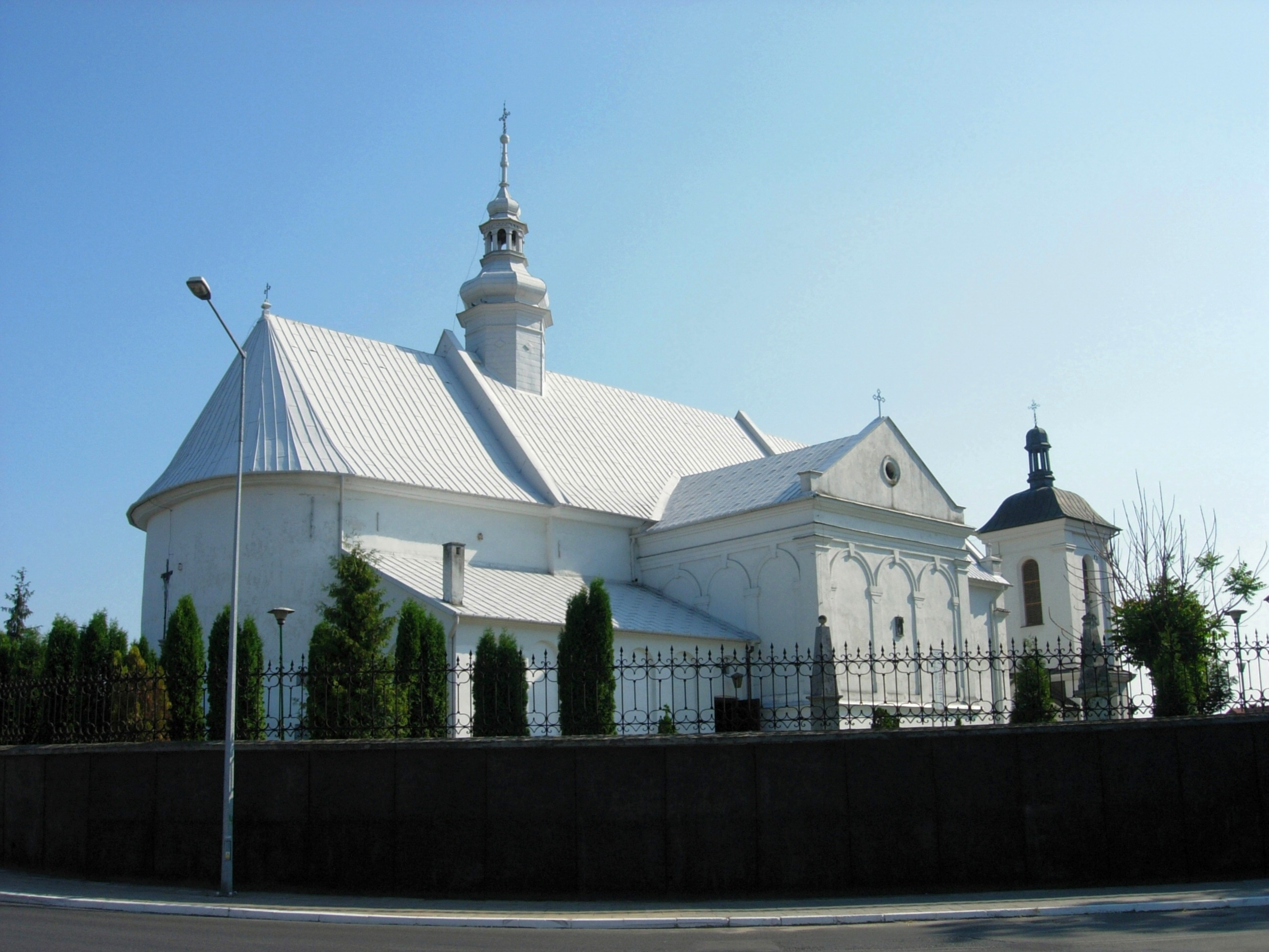 Holy Cross church in Kazimierza Wielka (Poland)